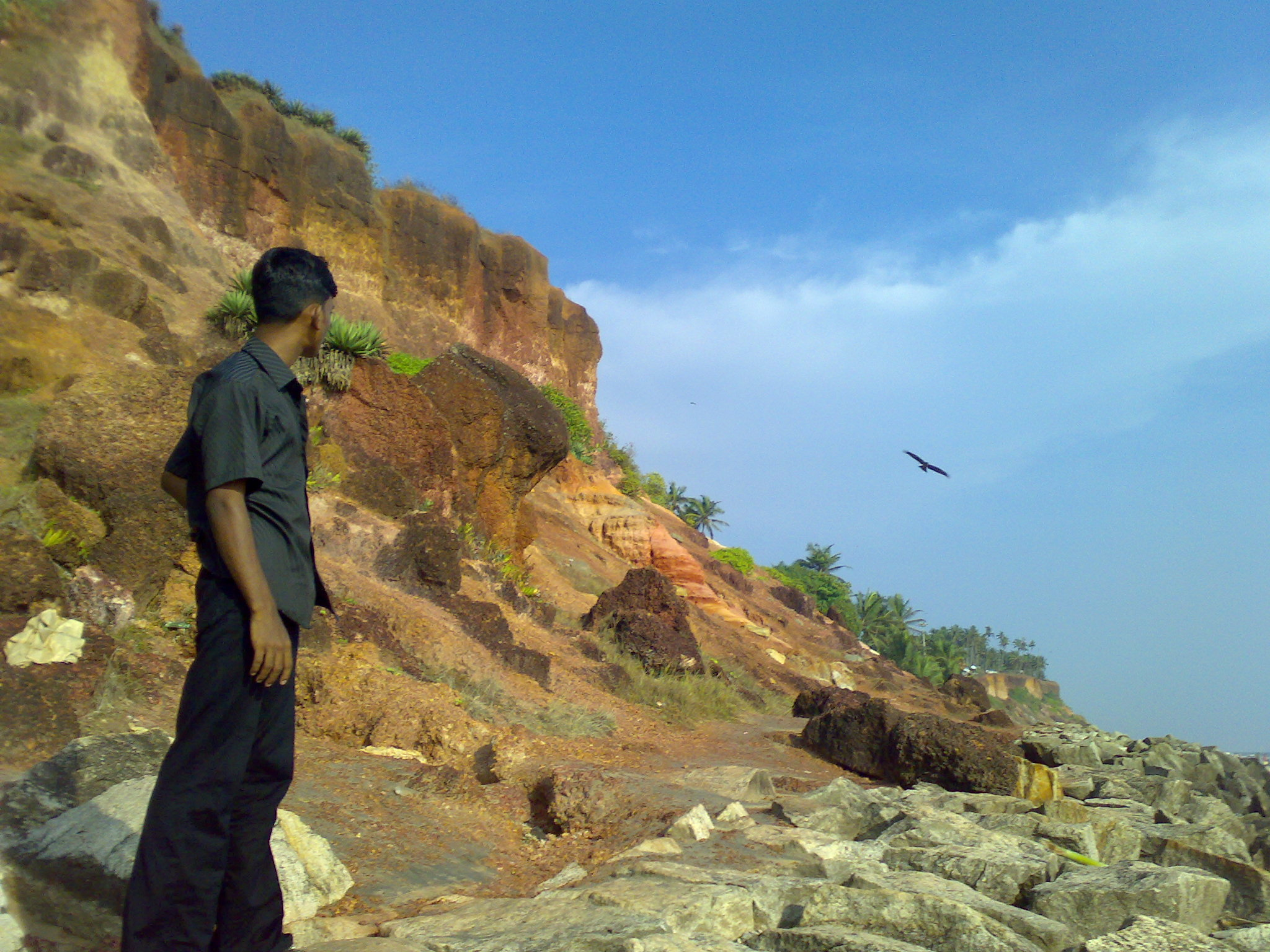 Cliffs Of Varkala Beach,Kerala,India